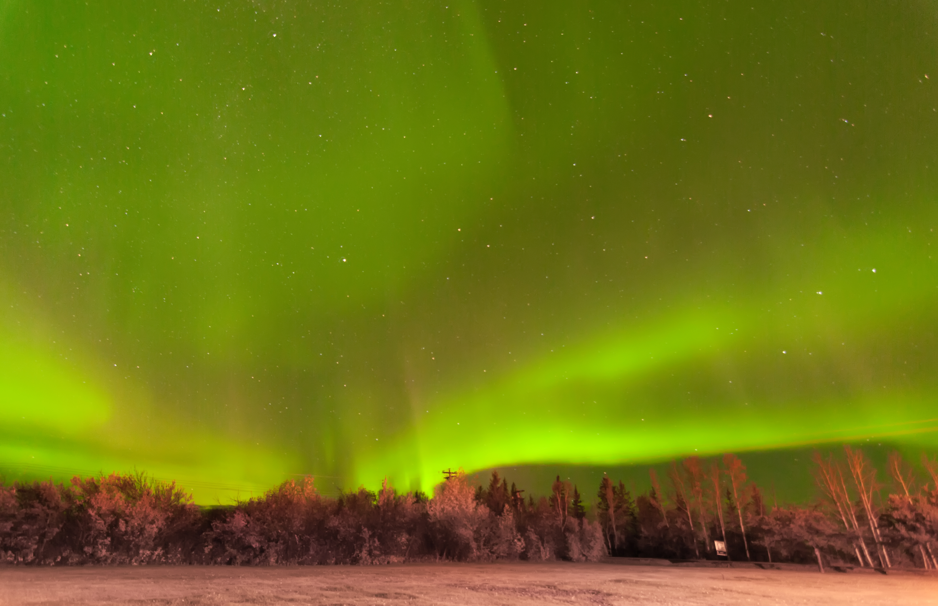 Northern light in Fort Vermilion